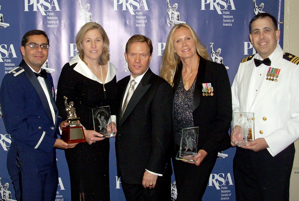 The Department of Defense New Media Directorate received four awards at the Public Relations Society of America’s 2008 Silver Anvil Awards in New York, N.Y., June 5, 2008, including the top honor in the associations, government and nonprofit organizations internal communications category for the “Check It” campaign. Pictured from left to right at the event are Air Force Lt. Col. Francisco Hamm, Department of Defense Comptroller Tina Jonas, 2008 Chair and Chief Executive Officer of PRSA Jeffrey Julin, DoD New Media Director Roxie Merritt, and Navy Lt. Cdr. Brook DeWalt. Photo courtesy of the Department of Defense New Media directorate